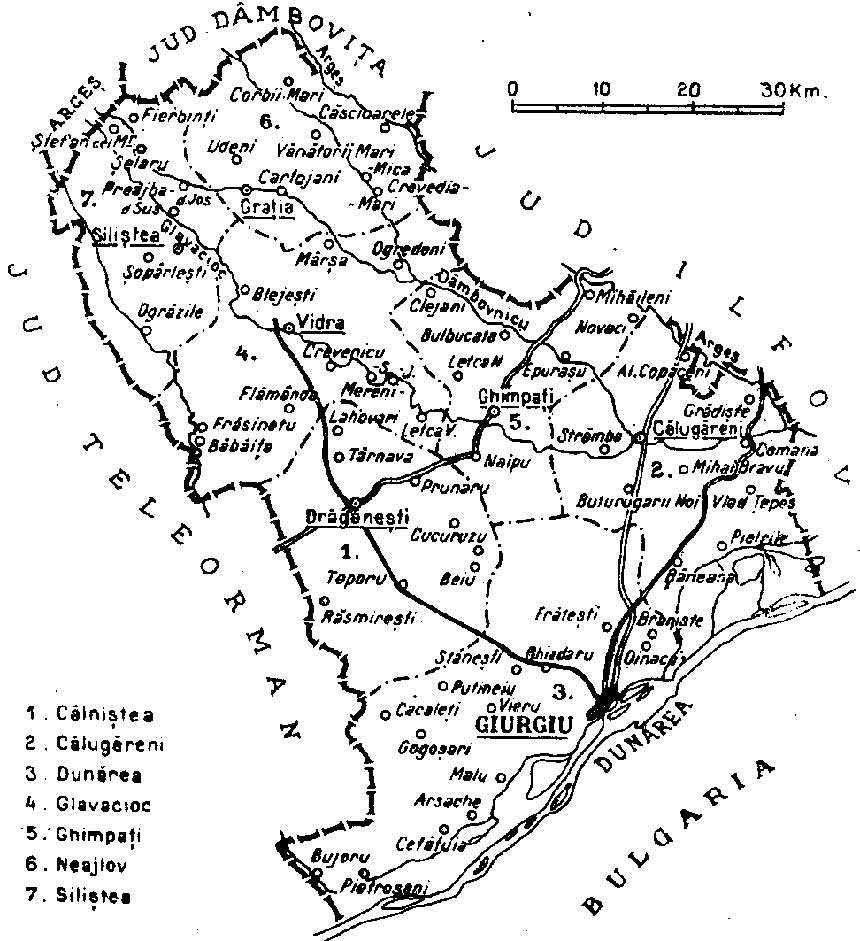 Map of Vlașca interwar county, Kingdom of Romania (1938).